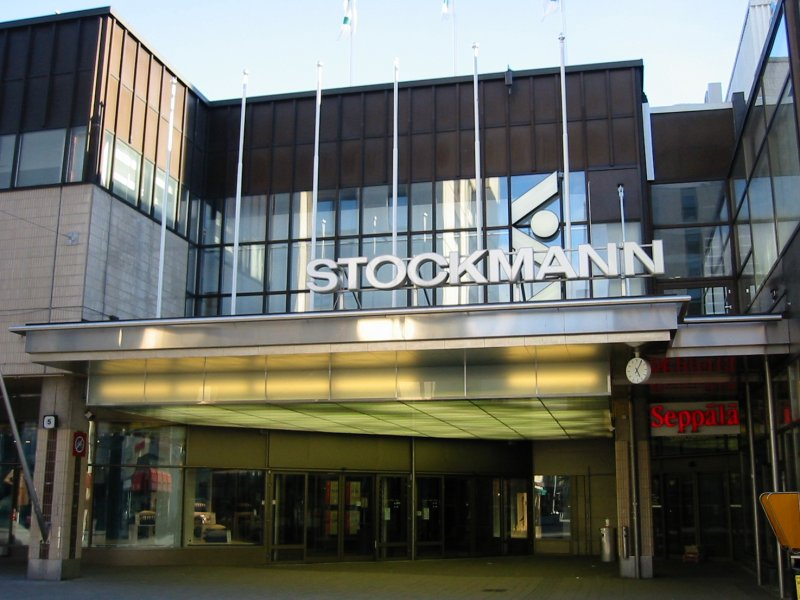 Stockmann department strore in Tapiola, Espoo, Finland.